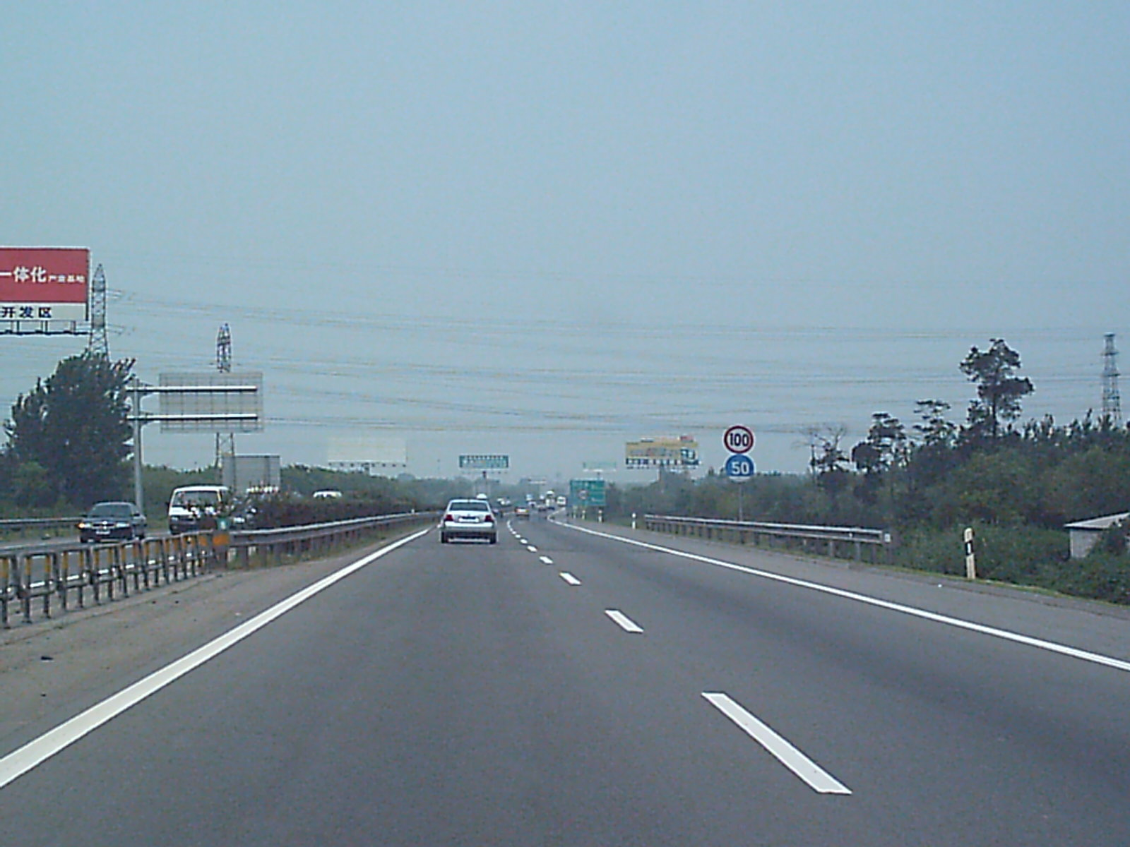 Jingjintang Expressway - Beijing segment.